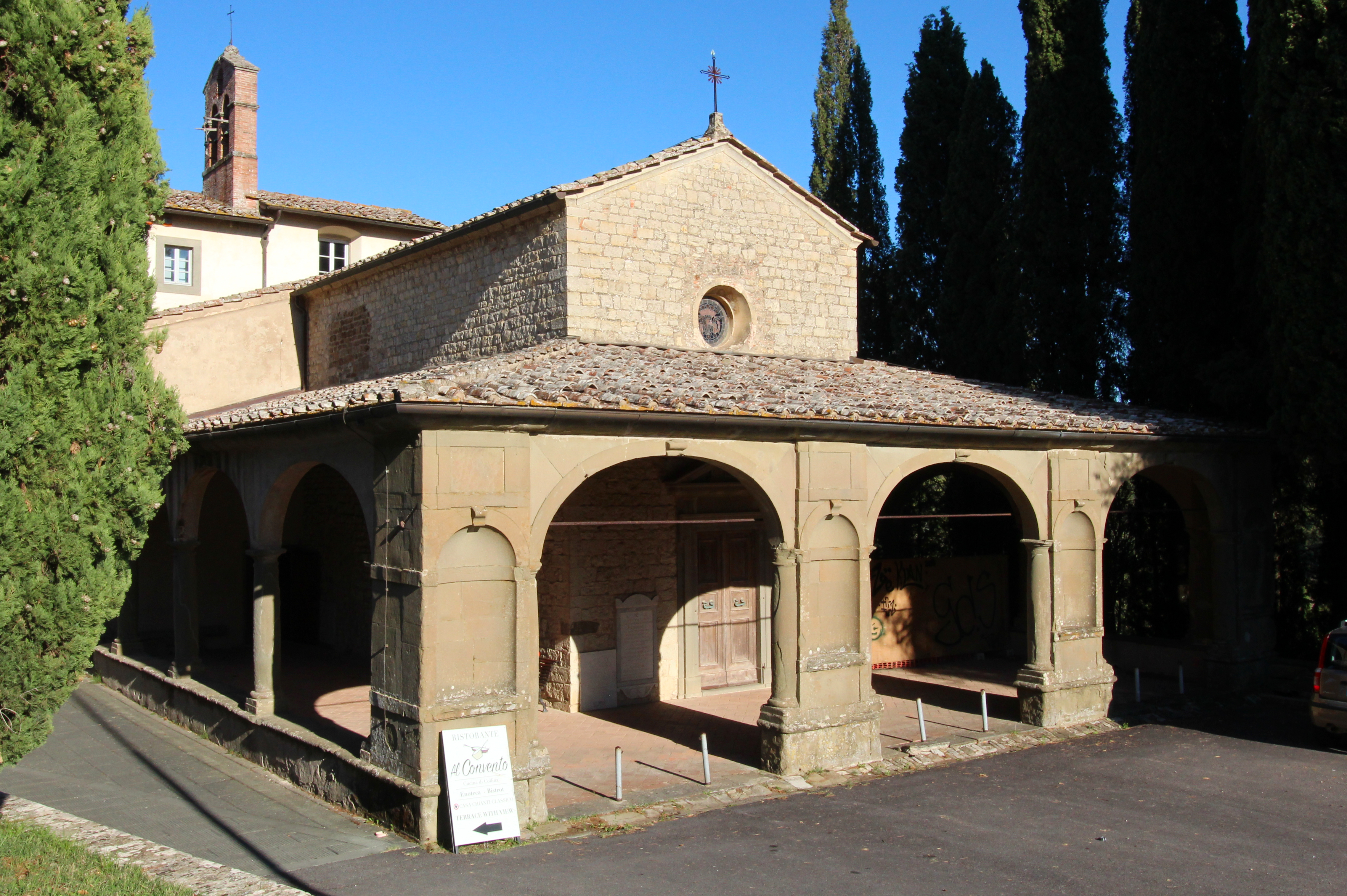 Church Santa Maria in Prato, Radda in Chianti, Province of Siena, Tuscany, Italy